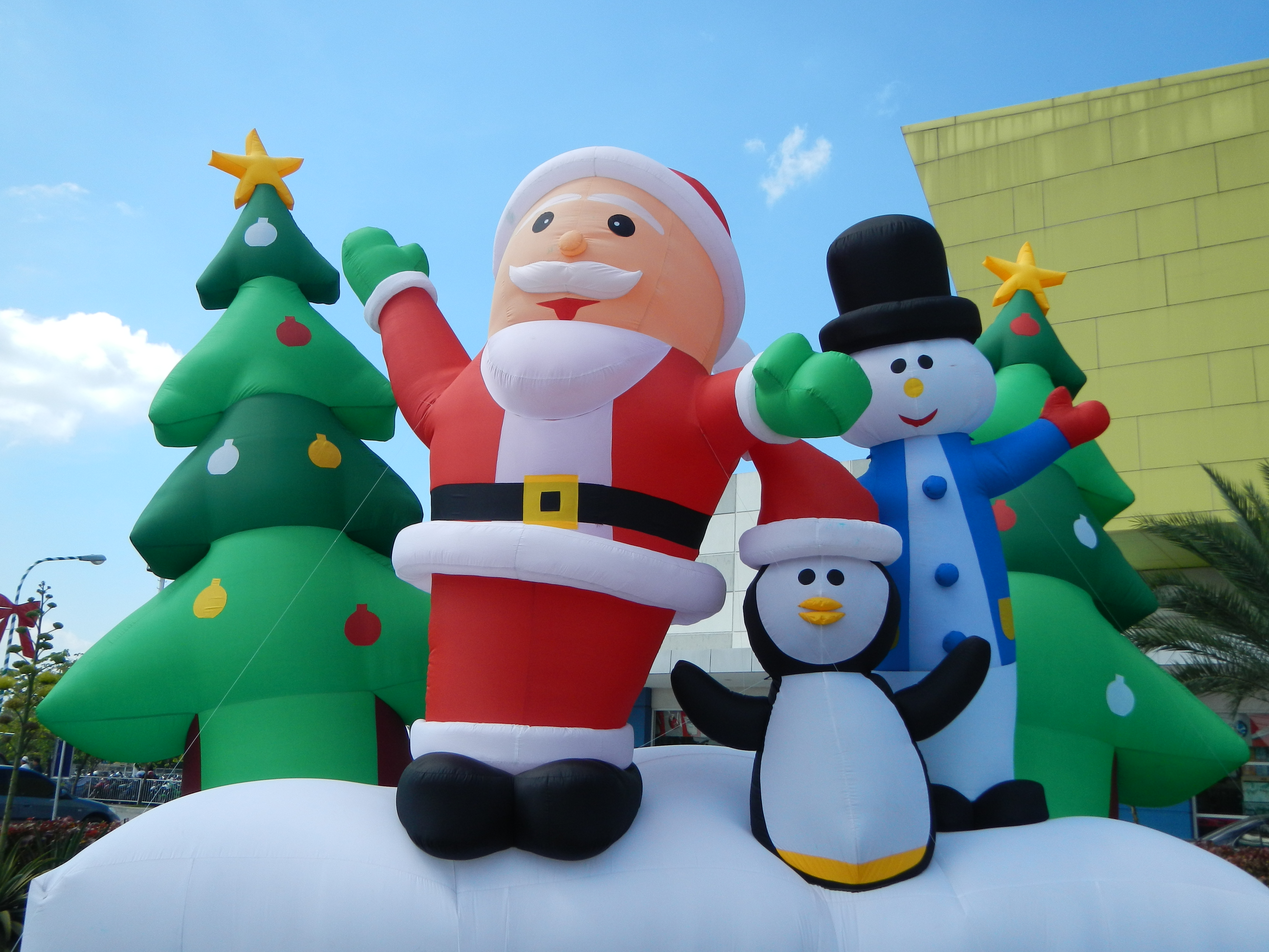 San Claus, a giant